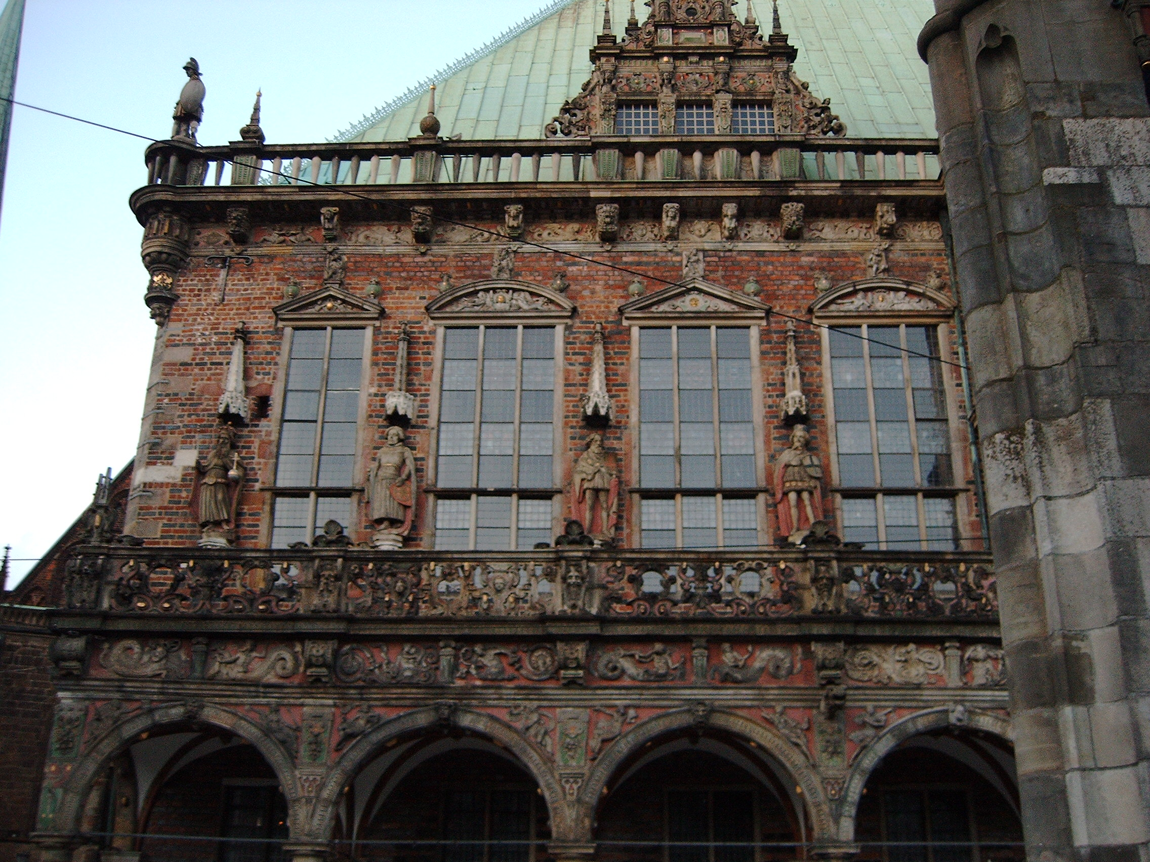 Images DownTown - Bremen City in Germany.